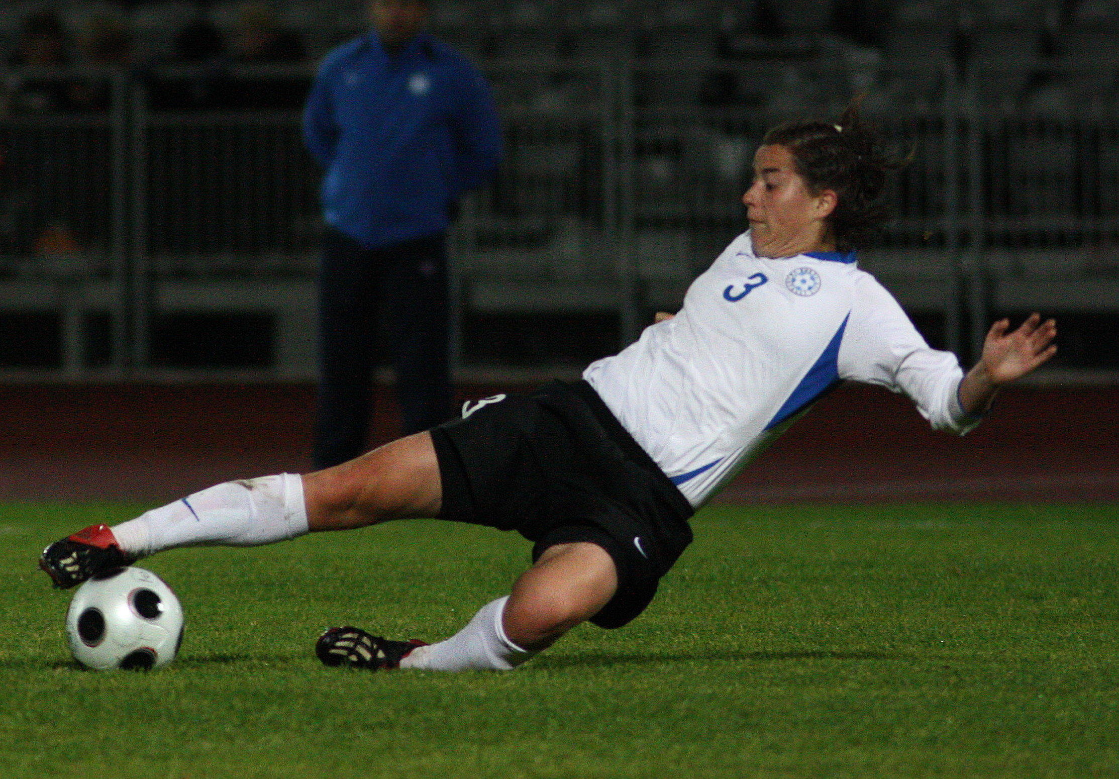 Iceland - Estonia/2011 FIFA Women's World Cup qualification UEFA Group 1